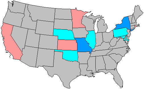 Summary of party change of U.S. house seats in the 1926 House election. Stripes indicate a tie between the gains of two or more parties. Legend: 6+ Democratic seat pickup 3-5 Democratic seat pickup 1-2 Democratic seat pickup 1-2 Republican seat pickup 3-5 Republican seat pickup 6+ Republican seat pickup 1-2 Progressive seat pickup 3-5 Progressive seat pickup 1-2 Farmer-Labor seat pickup 3-5 Farmer-Labor seat pickup Note: years ending in 2 may have inconsistent results due to redistricting.